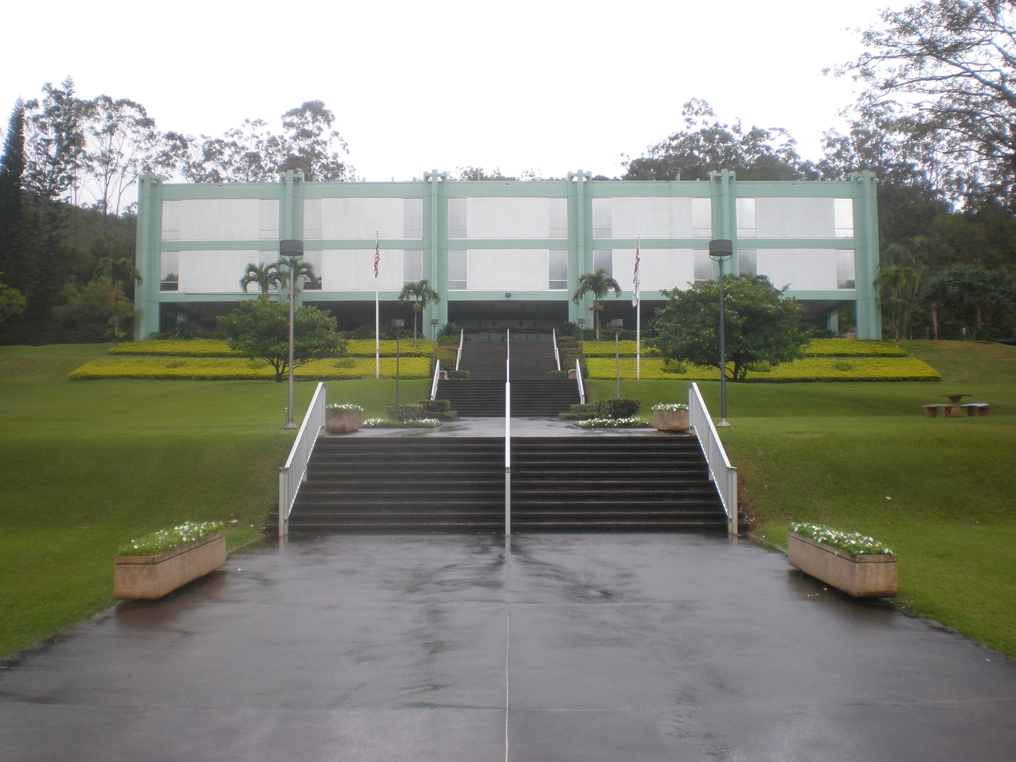 Main building, Hawaii Loa College (now Hawaii Loa campus of Hawaii Pacific University), 45-045 Kamehameha Highway Kaneohe, Hawaii